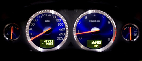 Instruments of Volvo S60R AWD